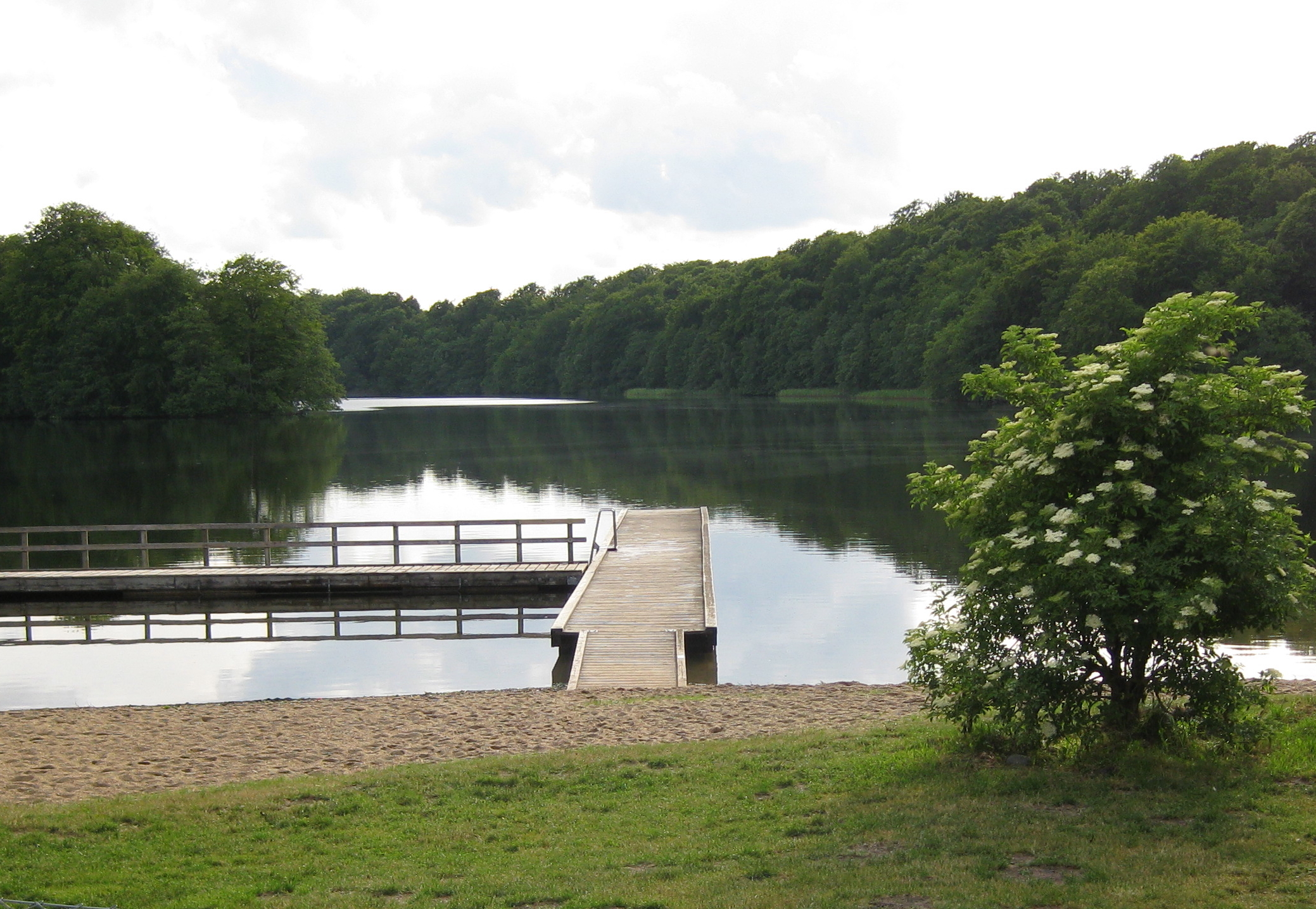 Lake Gyllebosjön in Skåne, Sweden